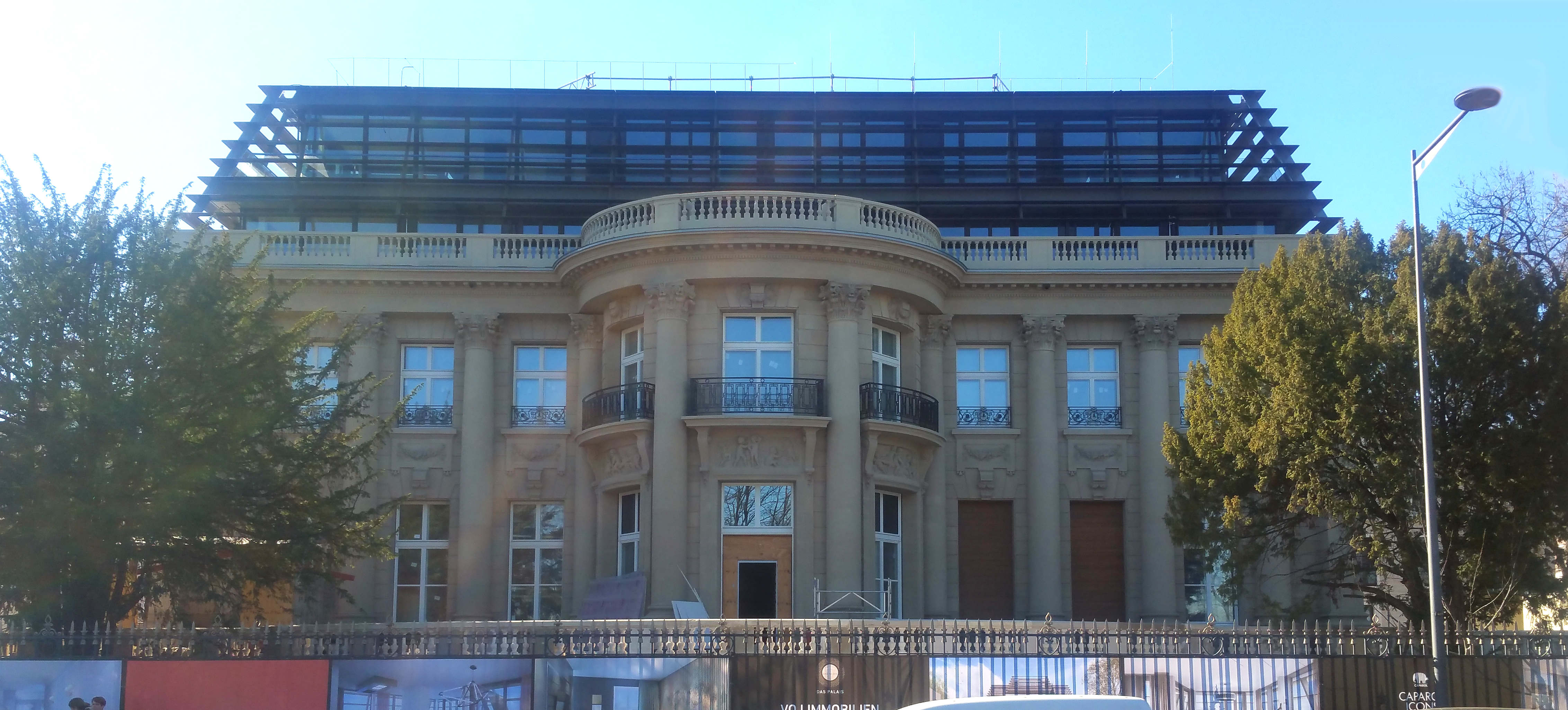 Villa Oppenheim in Cologne (Bayenthal). Front Side (view from Rhine) with the new roof